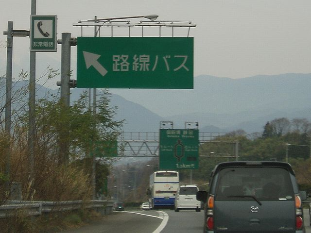 Information board of Tomei Ooi Bus Stop